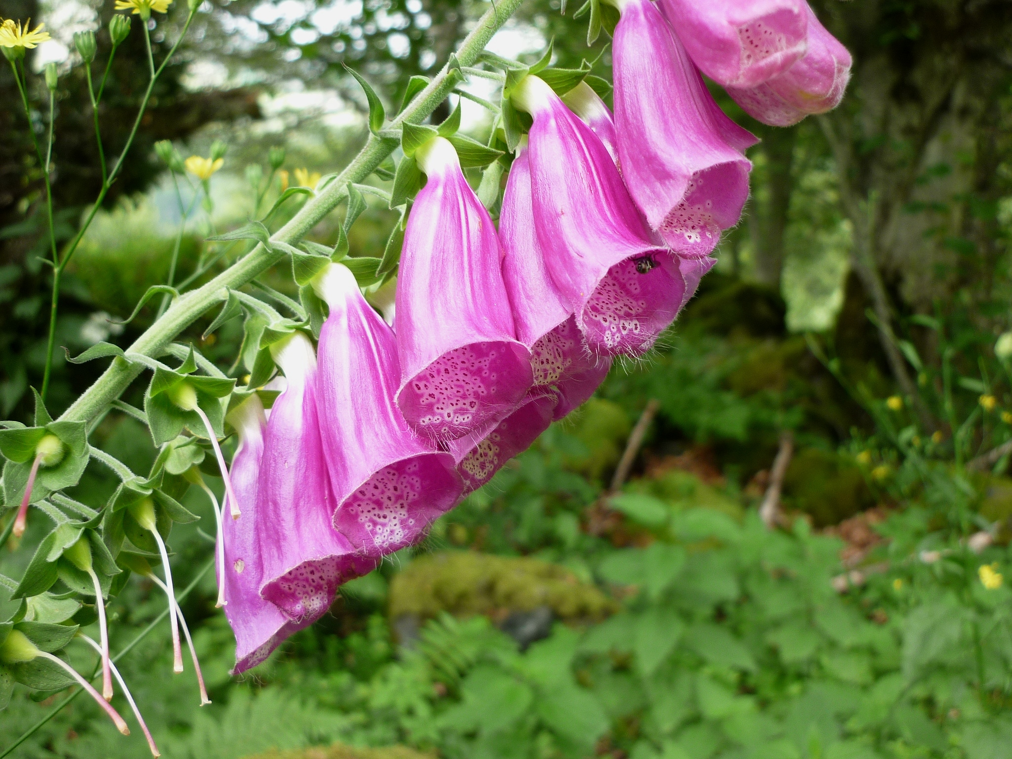 Digitalis purpurea. In Vielha e Mijaran (Val d'Aran - Catalunya. To 1.470 m altitude